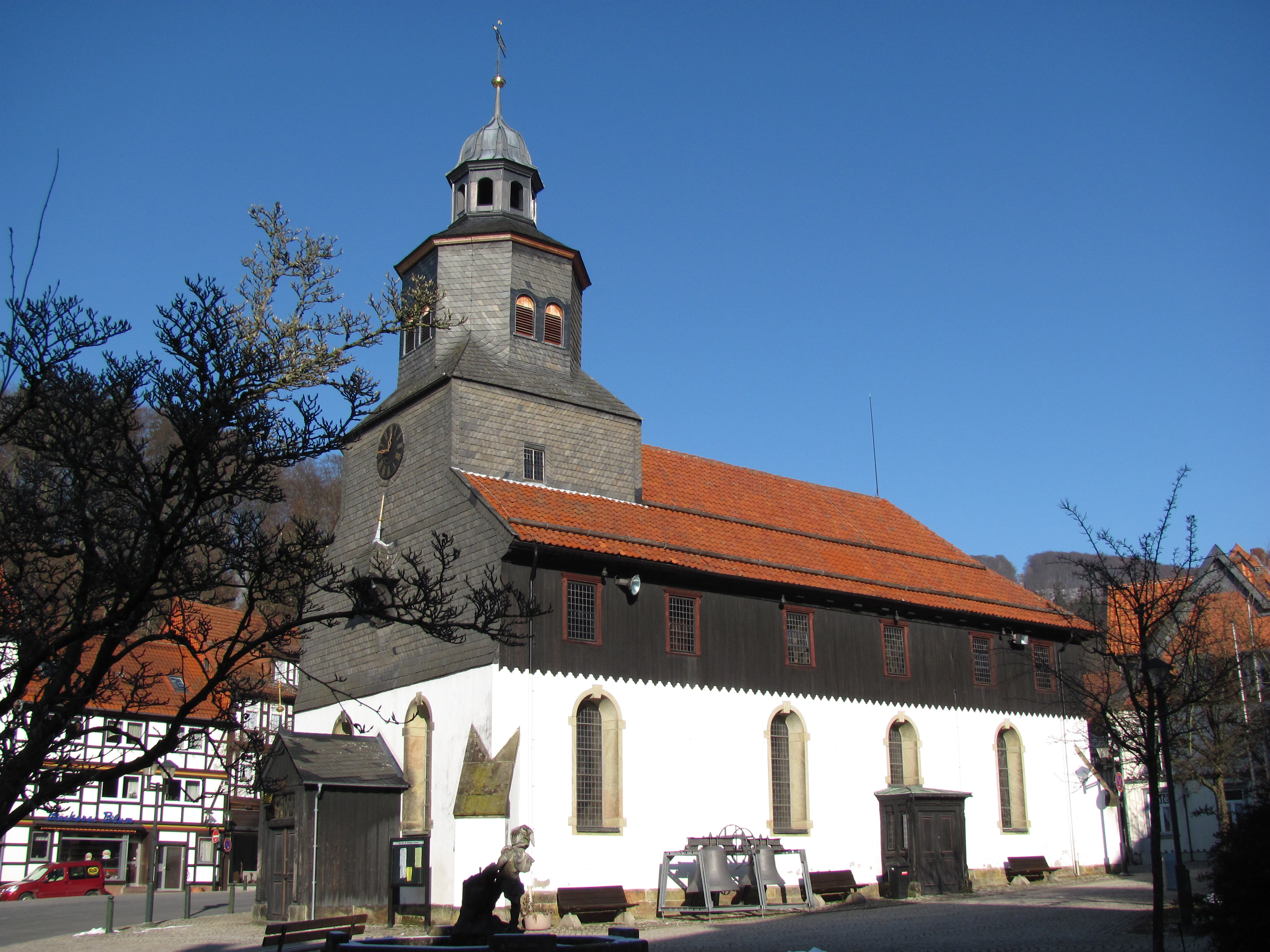 St. Antony's Church, Bad Grund, Harz Mountains,Germany